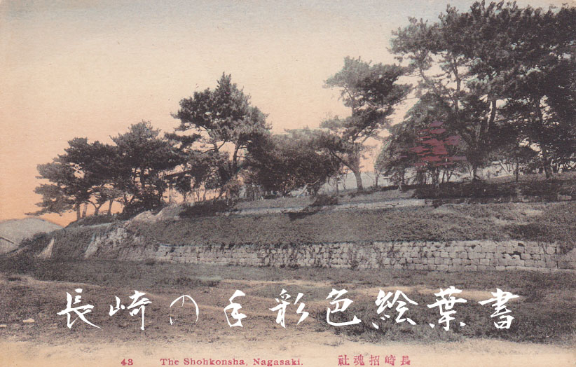 Japanese hand tinted postcard with a view of the grounds of Shokonsha, a shrine in Nagasaki